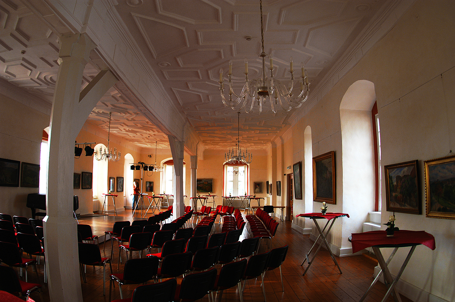 emperor's room, Lichtenberg Castle